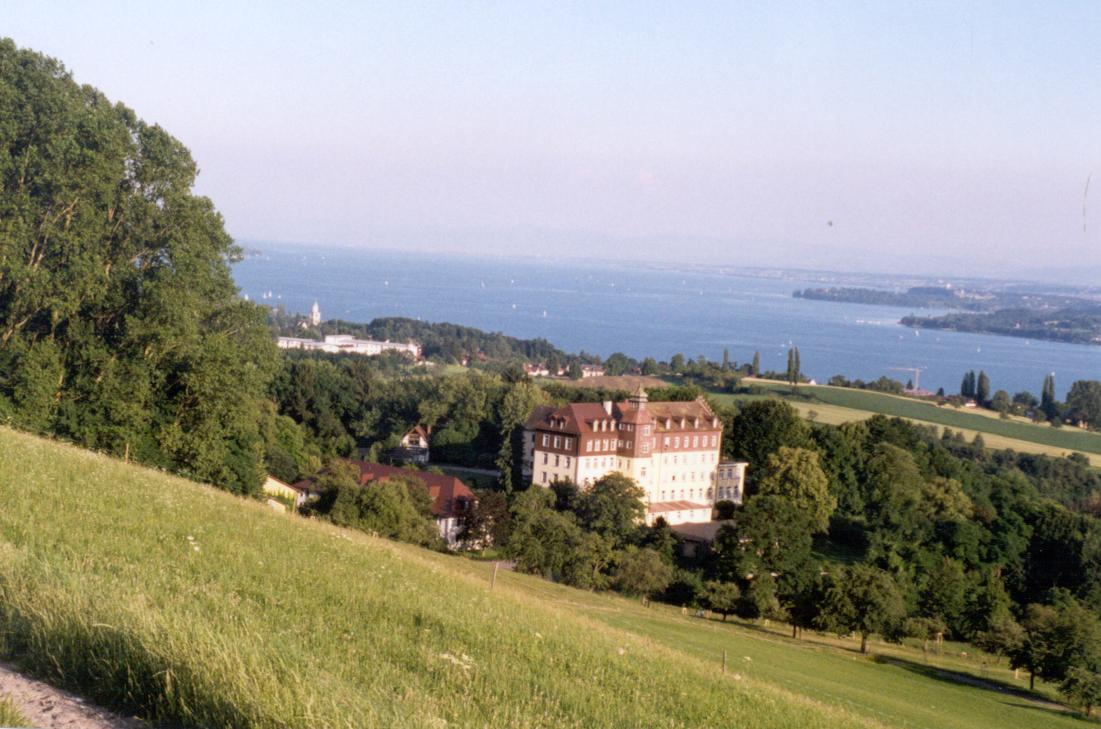 view of Salem college (international high school) overlooking the Bodensee, with Ueberlingen in the background